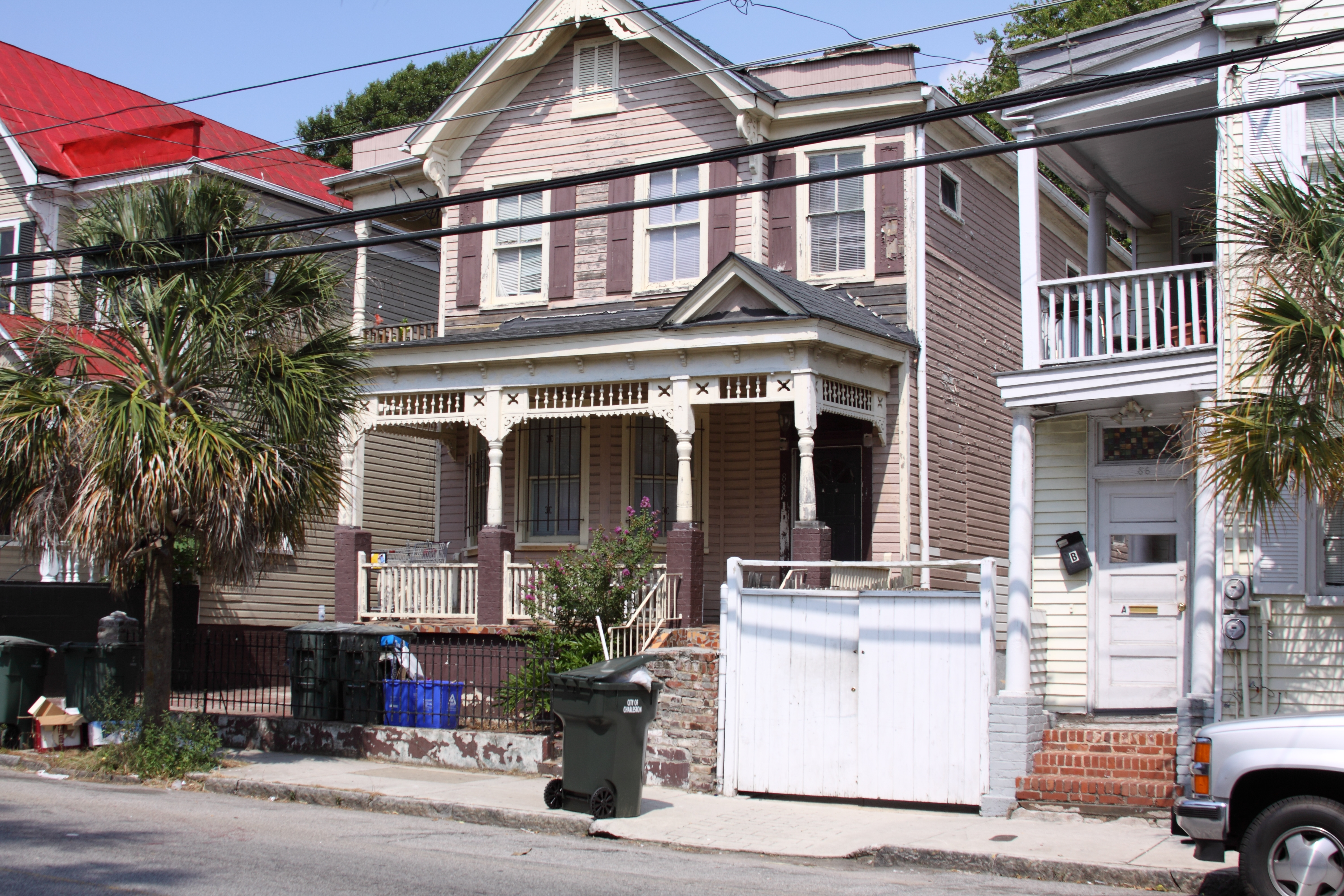 Columbus Street near Meeting Street 2_Charleston South Carolina